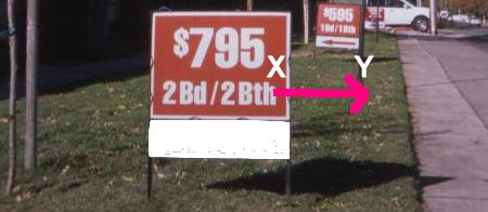 Pulfrich is based on the phenomenon of the human eye processing images more slowly when there is less light, as when looking through a dark lens. Imagine a camera which starts at position X and moves left to right to position Y as shown by the arrow. If a viewer then watches this segment with a dark lens over the left eye then when the right eye sees the image recorded when the camera is at Y, the left eye will be a few milliseconds behind and will still be seeing the image recorded at X, thus creating the necessary parallax to generate right and left eye views and 3D perception.